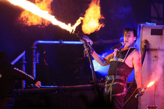 Rammstein in Chile